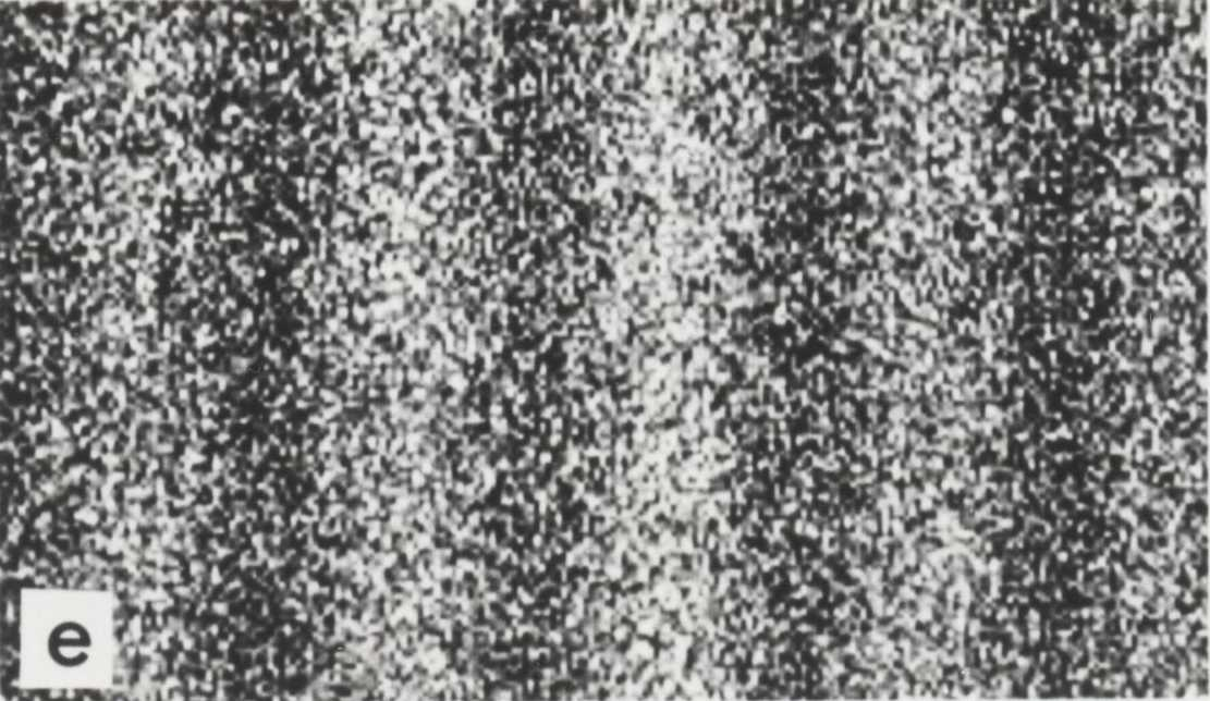 Results of a double-slit-experiment performed by Dr. Tonomura showing the build-up of an interference pattern of single electrons (this image: 70000 electrons according to caption in American Journal of Physics).